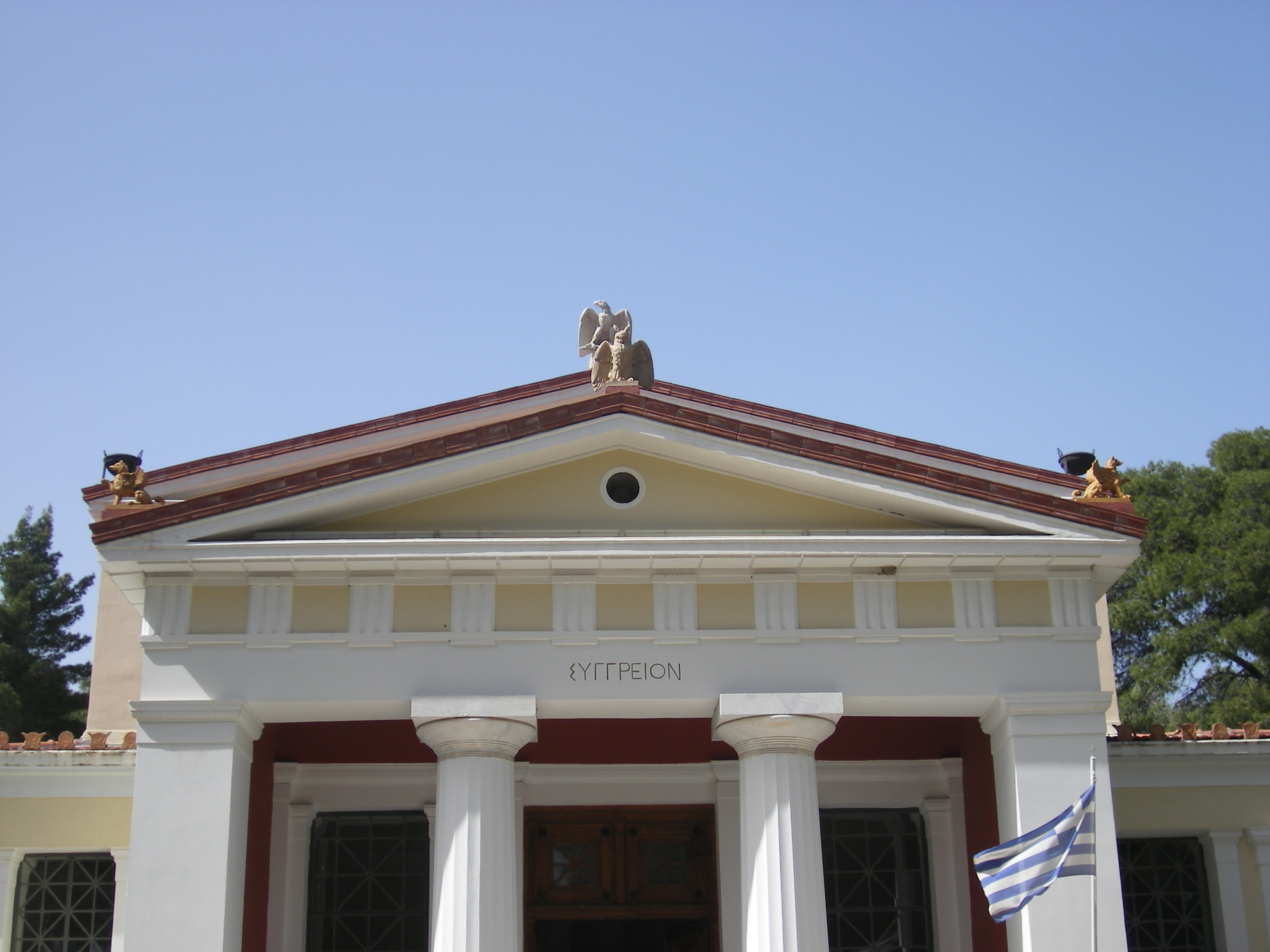 Fronton de l'ancien musée archéologique d'Olympie / pediment of Old archaeological museum of Olympia (1888, Wilhelm Dörpfeld & Friedrich Adler)